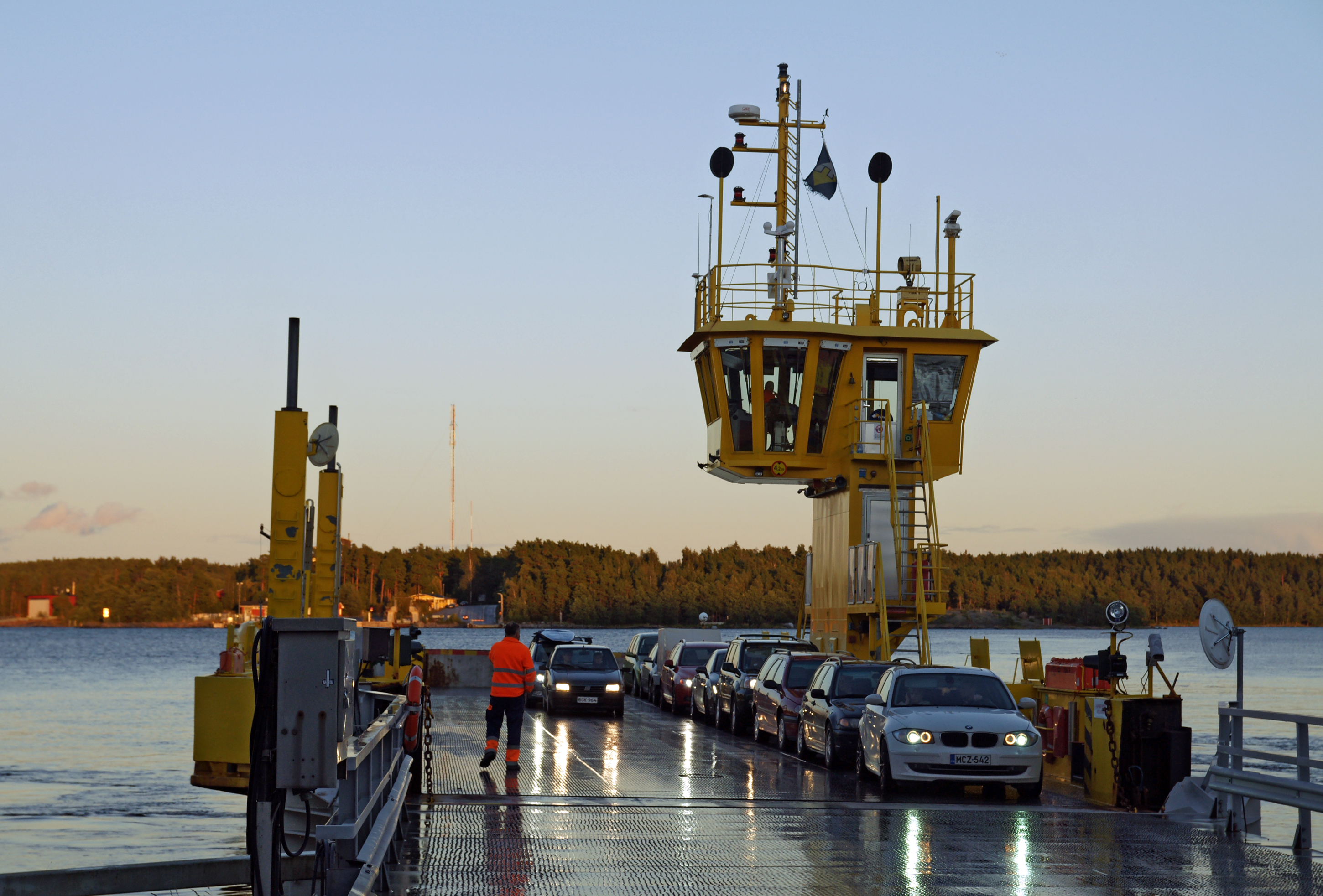 L/A Prostvik in Korppoo.